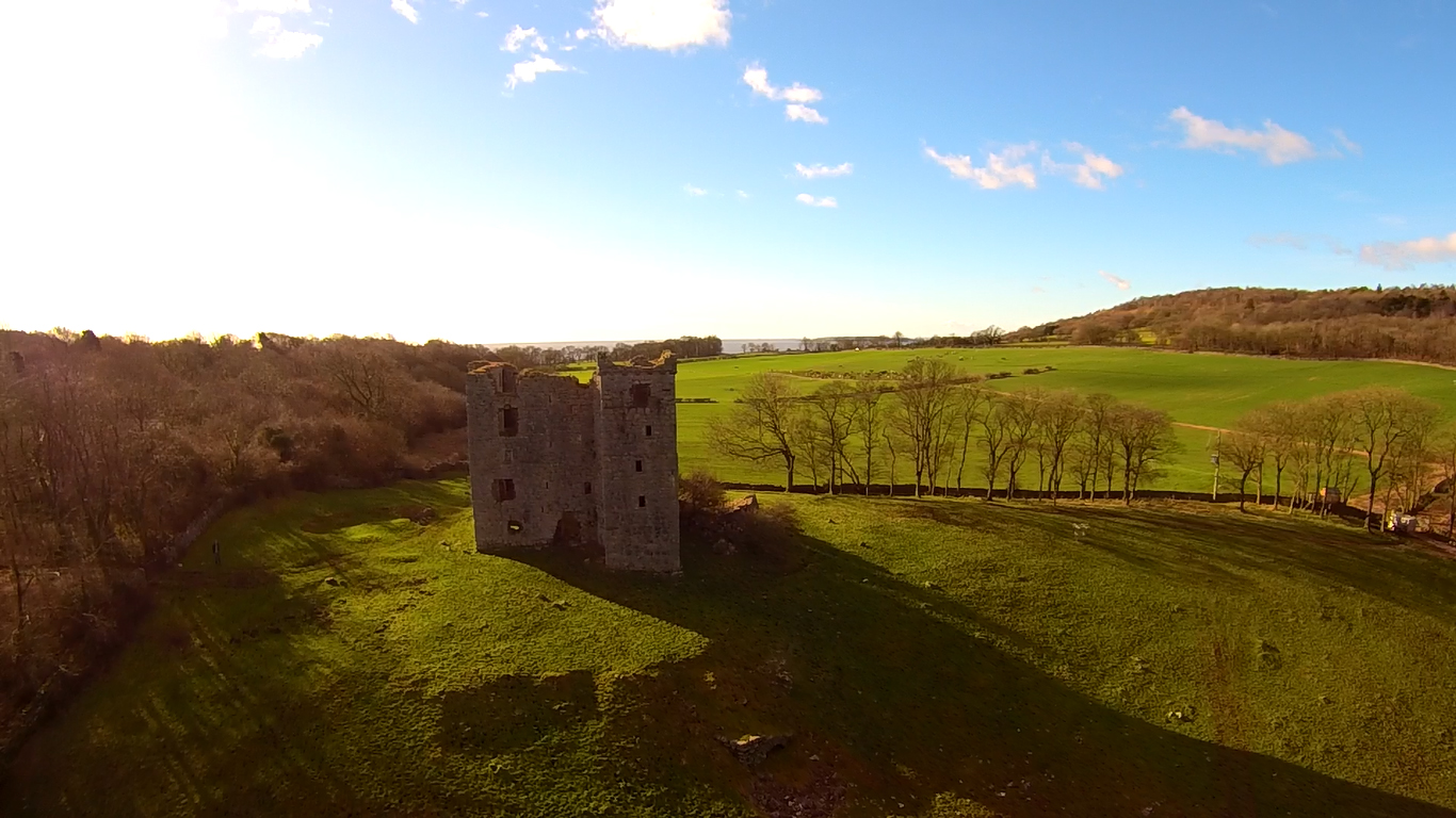 View looking south west showing the site of Arnside Tower with the tower visible in the foreground. The nearby public footpath crosses from right to left of this image, visible behind the tower.